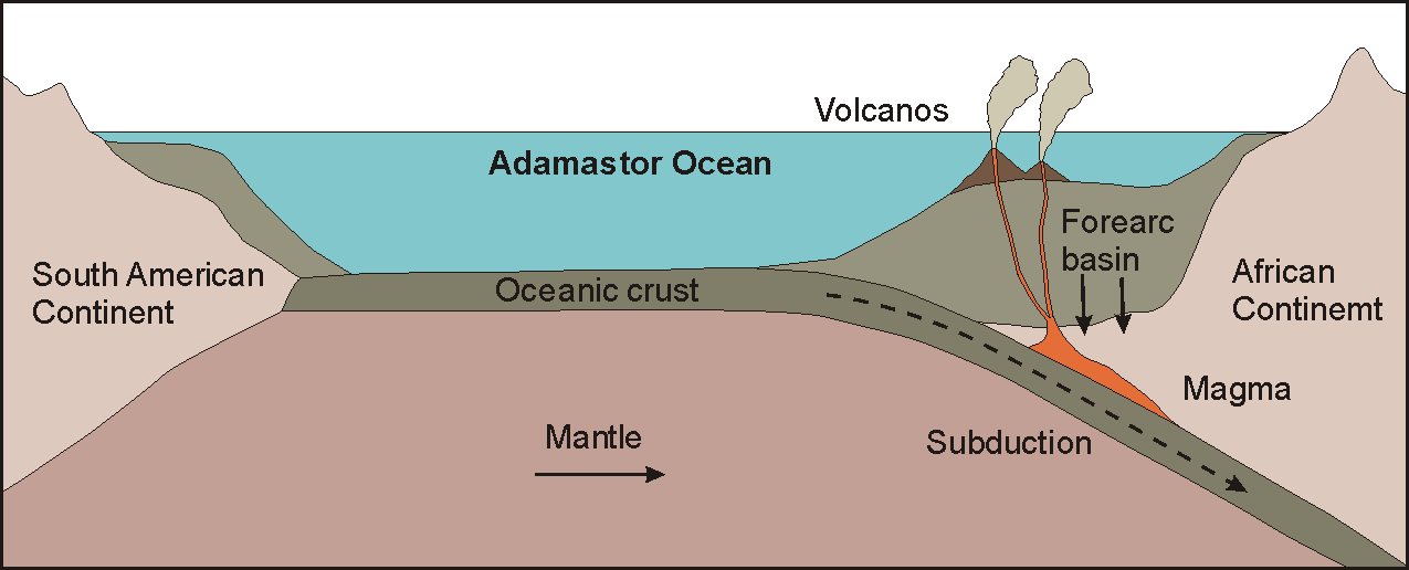 Schematic section of possible tectonic setting during deposition of Malmesbury group